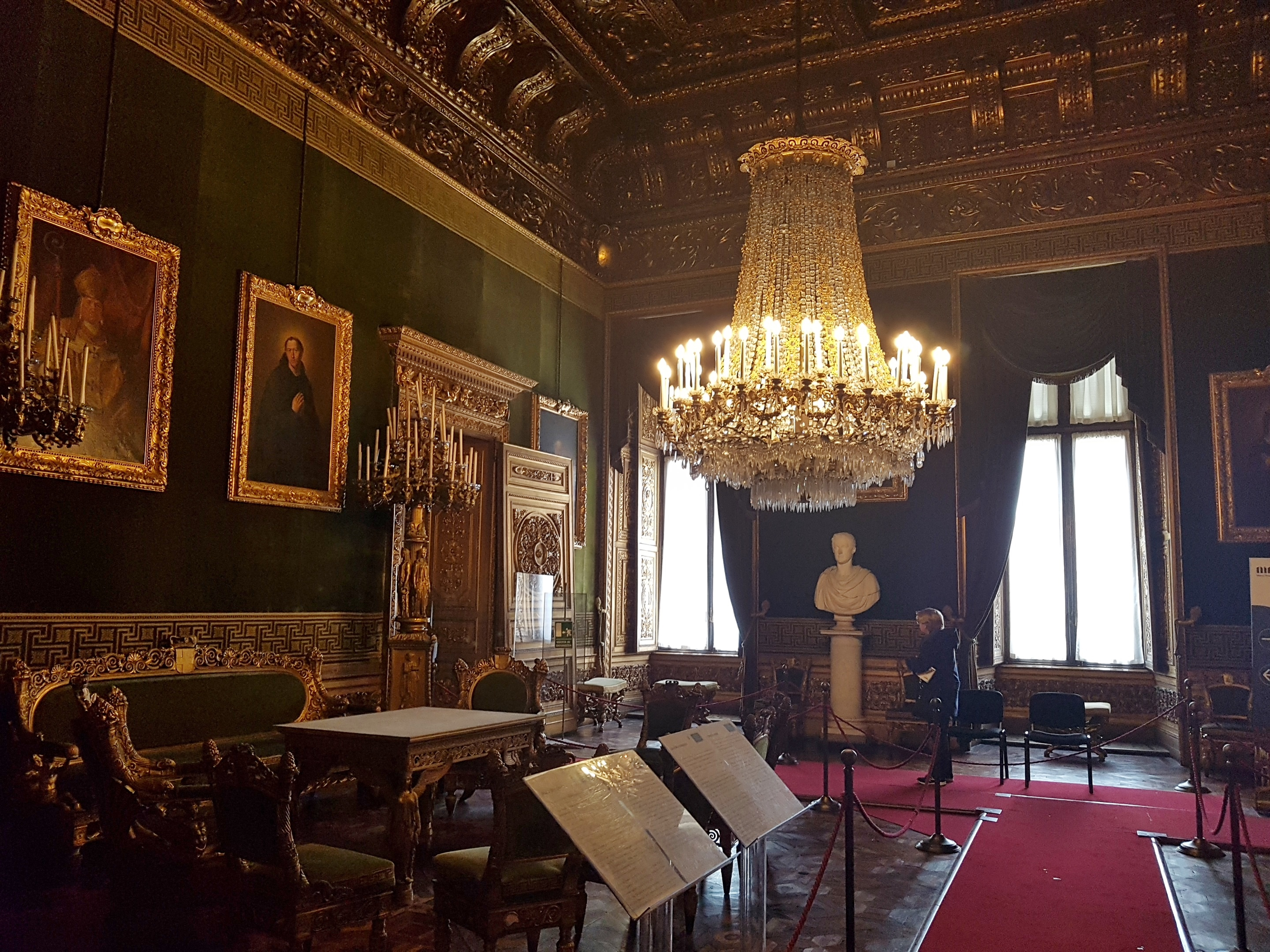 First floor: Council Hall, Royal Palace of Turin, Northern Italy